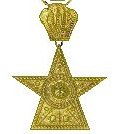 Badge of the Order of the Star of Ethiopia (member) - cropped